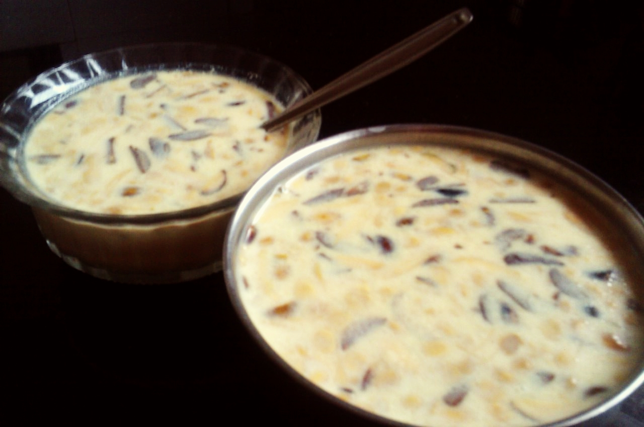 sheer khurma ( vermicelli kheer). photo taken with my 3m.p. htc mobile phone camera